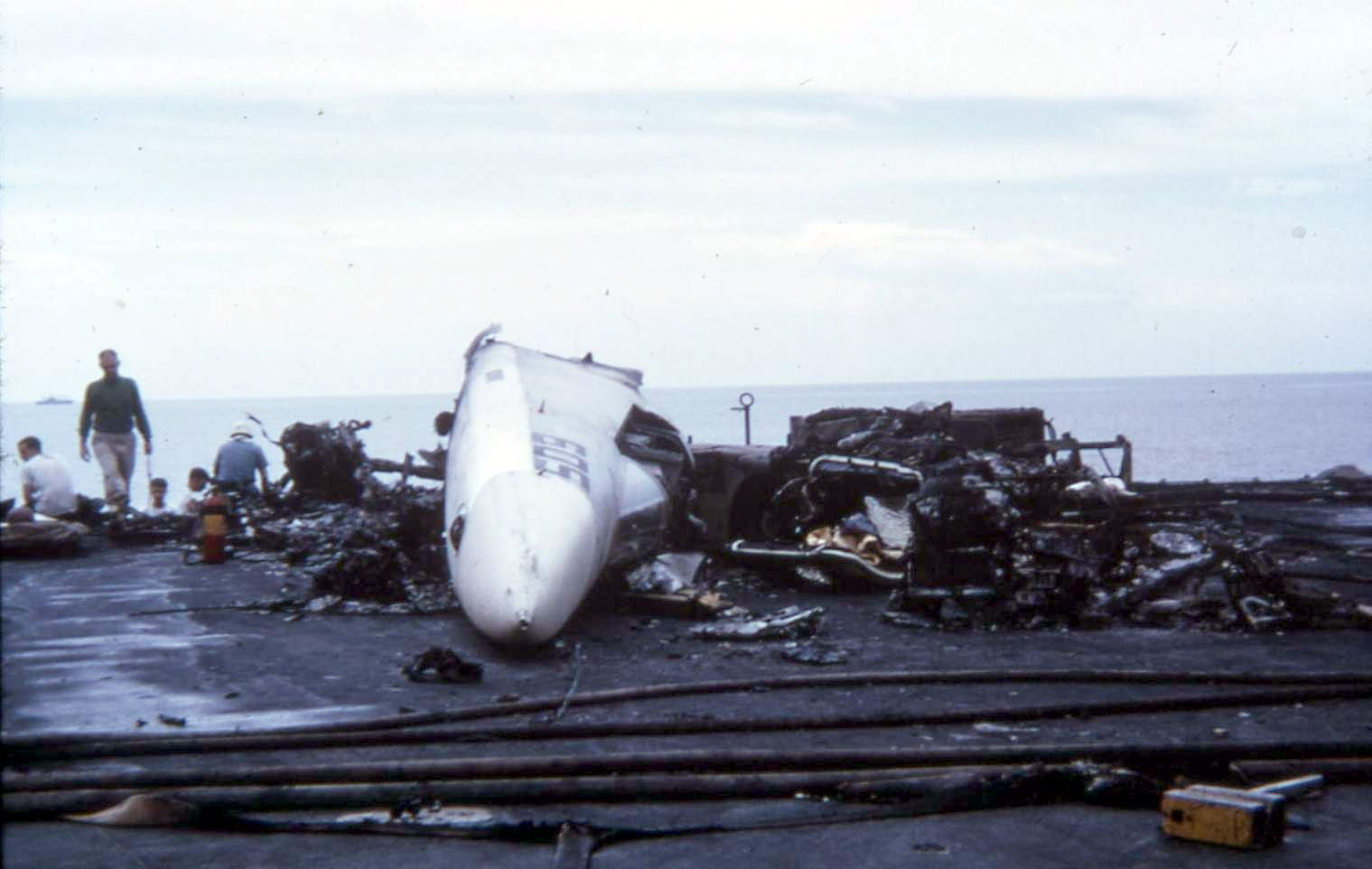 Nose of A North American RA-5C Vigilante plane (BuNo 149305) destroyed in the USS Forrestal (CVA-59) fire, 1967.